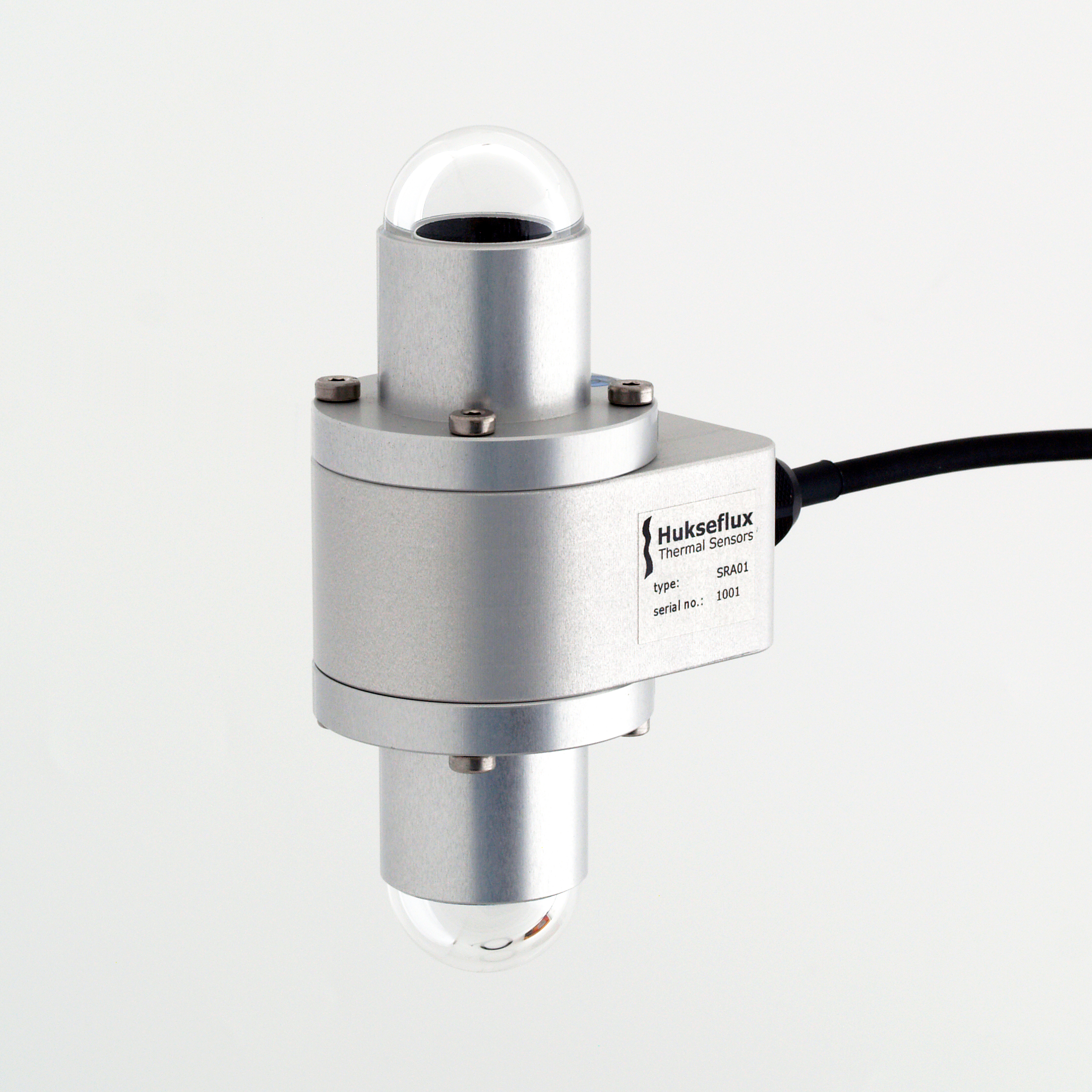 Hukseflux SRA01 Albedo Sensor